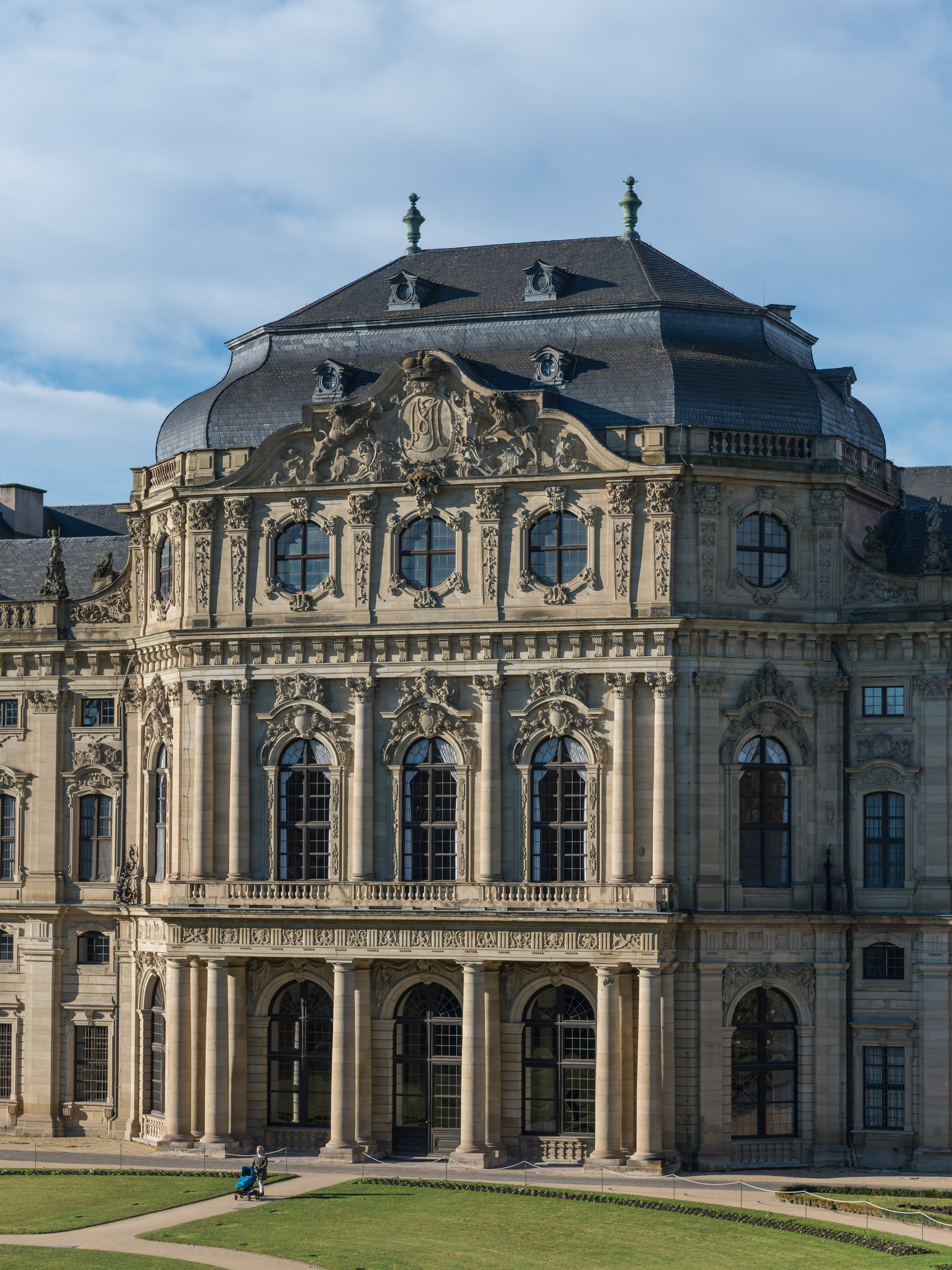 Residence Würzburg as seen from the elevated eastern part of Hofgarten